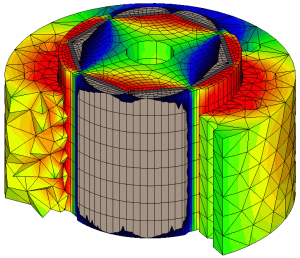 Motori sinkron